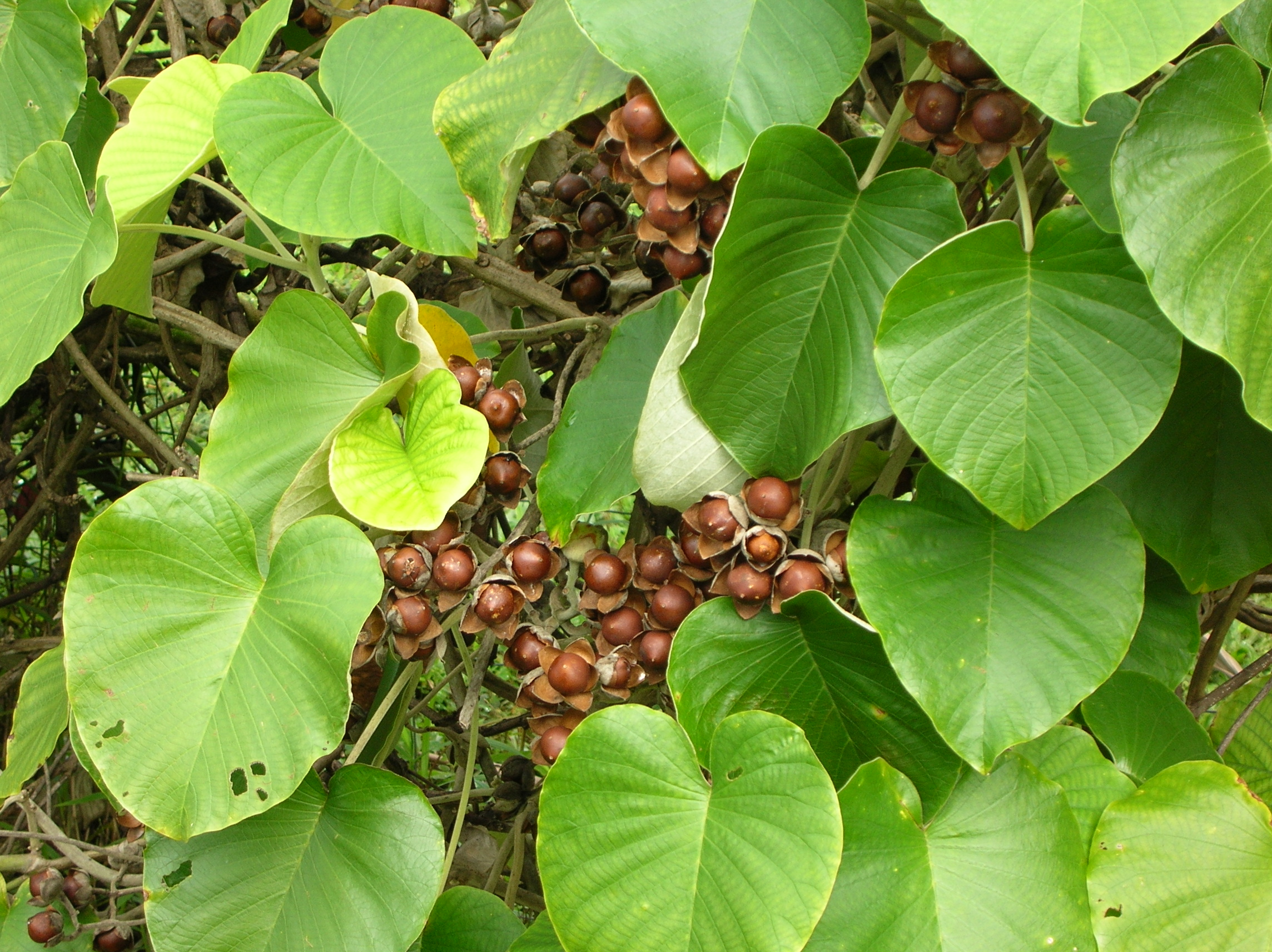 Argyreia nervosa (fruit). Location: Maui, Hana Hwy Kailua